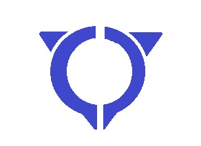 Flag of Uto Kumamoto